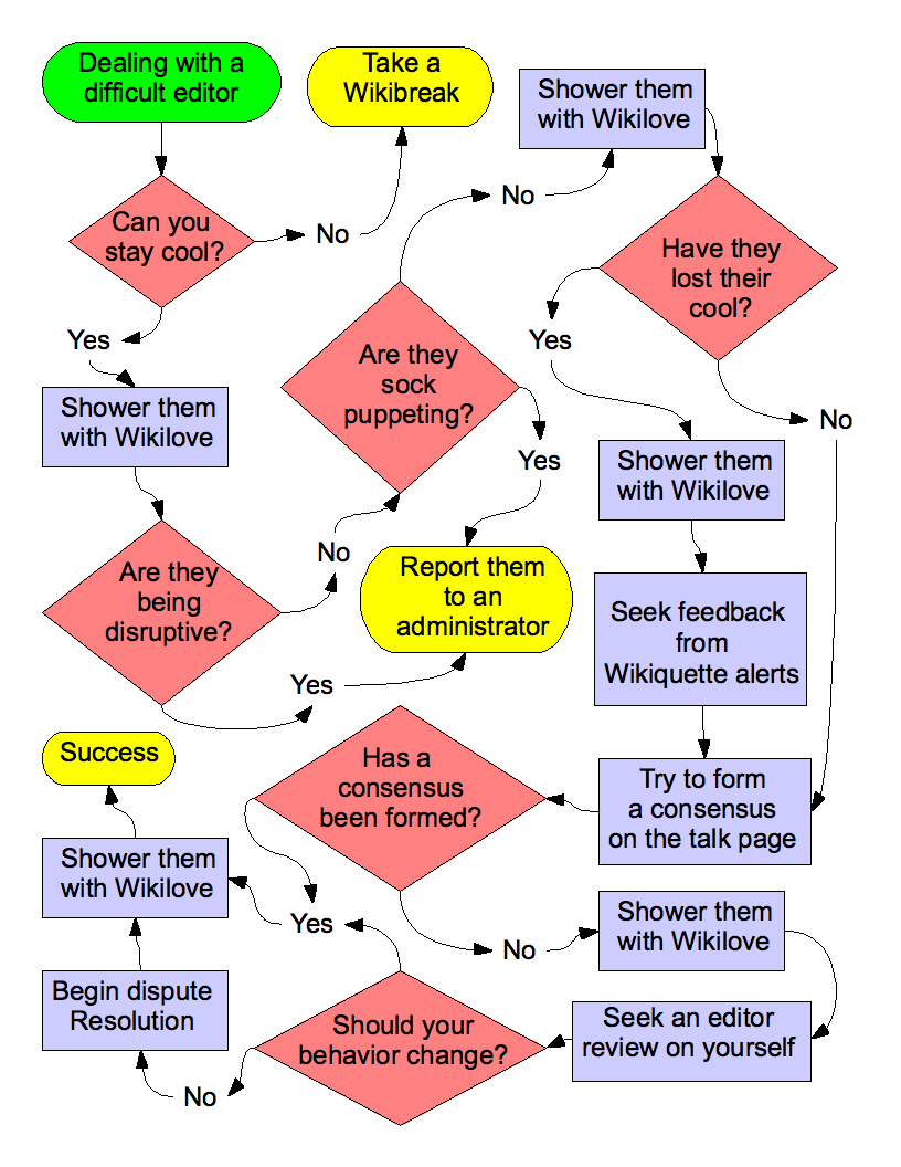 A flow chart for dealing with a difficult editor by applying liberal amounts of WikiLove and following Wikipedia policies.